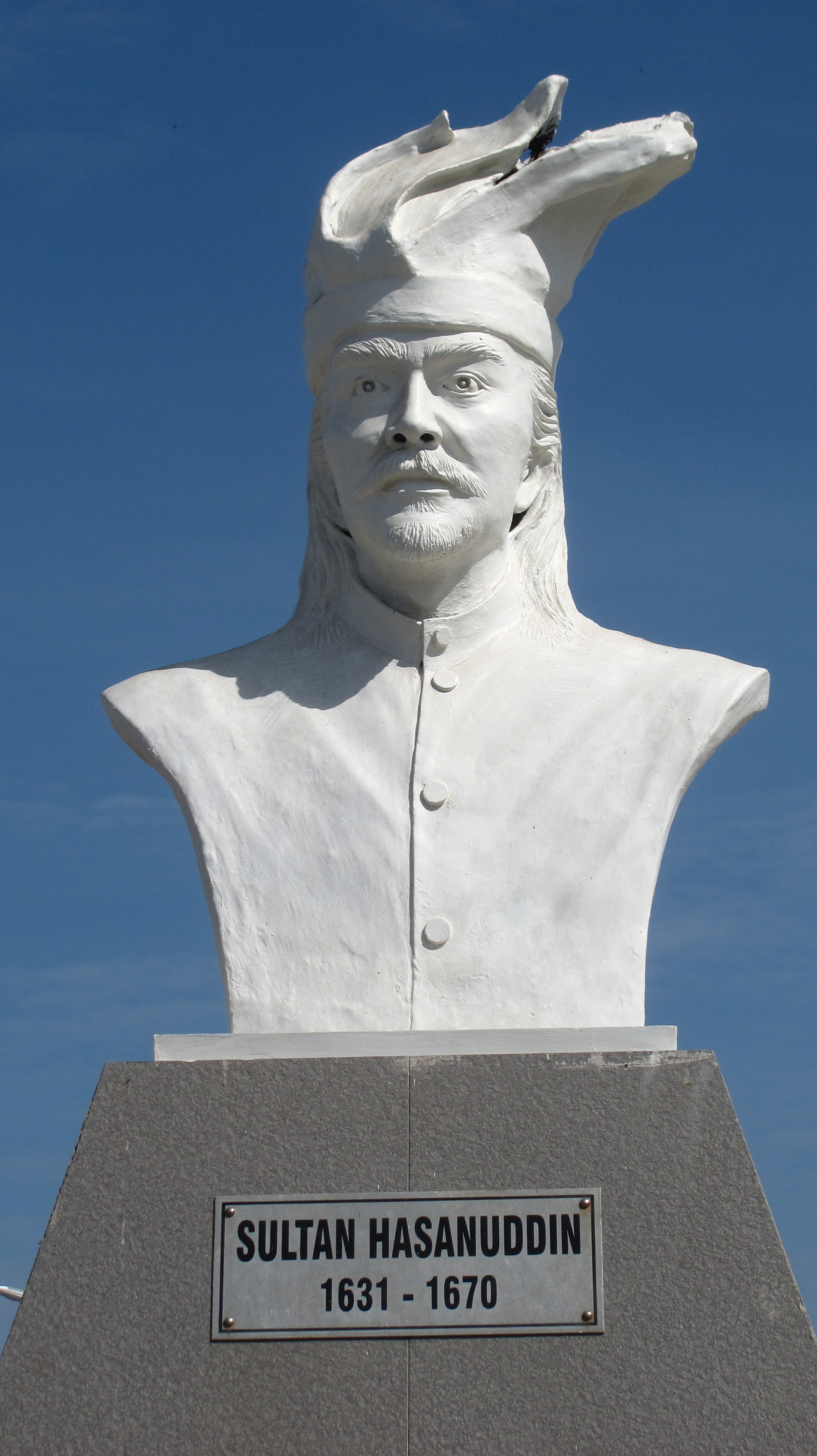 Monument of Sultan Hasanuddin, Pantai Losari, Makassar, Indonesia